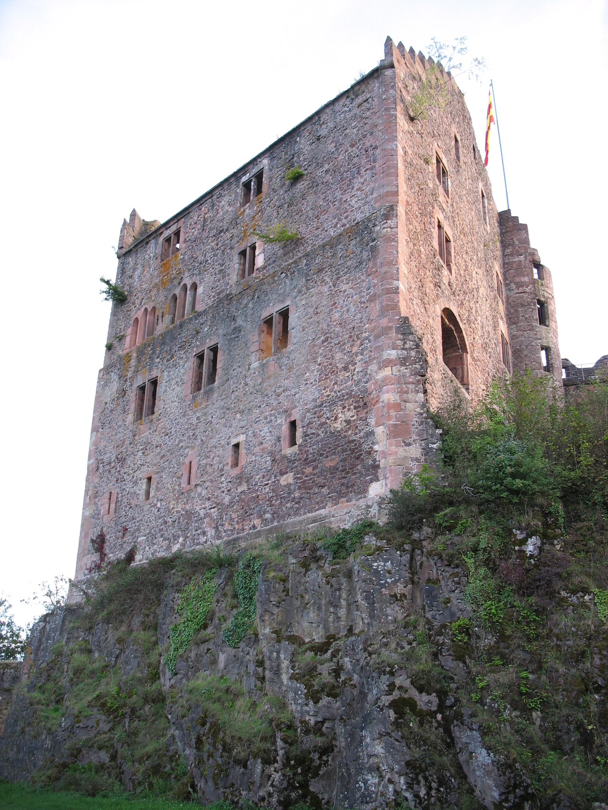 Taken by the author itself on 20060901. The castle ruin of Hohengeroldseck, BW, black forest, germany.